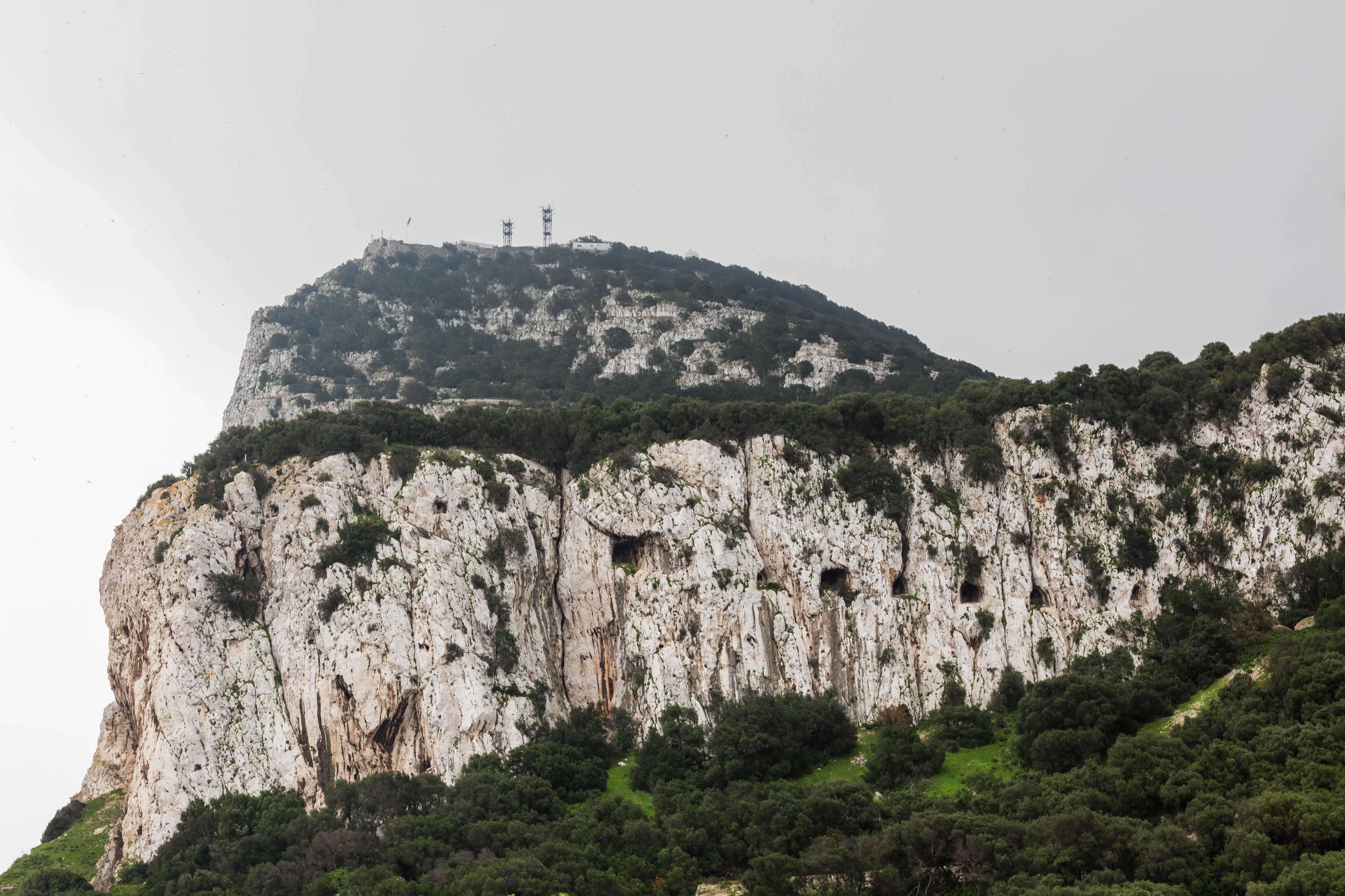 Rock of Gibraltar